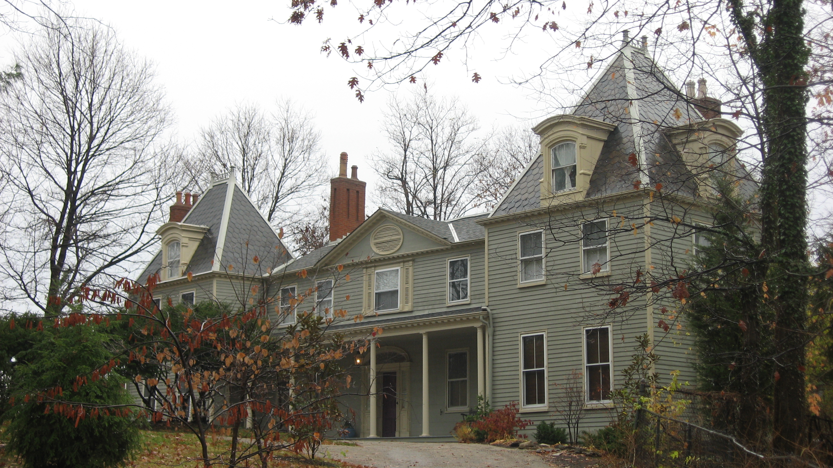 Front of the Gorham A. Worth House, located at 2316 Auburncrest Avenue in the Mount Auburn neighborhood of Cincinnati, Ohio, United States. Built in 1819 and heavily modified since that time, it is listed on the National Register of Historic Places.